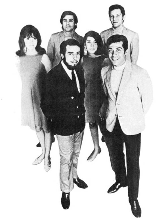 Trade ad for Sergio Mendes & Brasil '66's single "Mas Que Nada". To better adapt it to his respective Wikipedia article, the ad was cropped and cleaned in a graphics editing program. The original can be viewed at the source below.